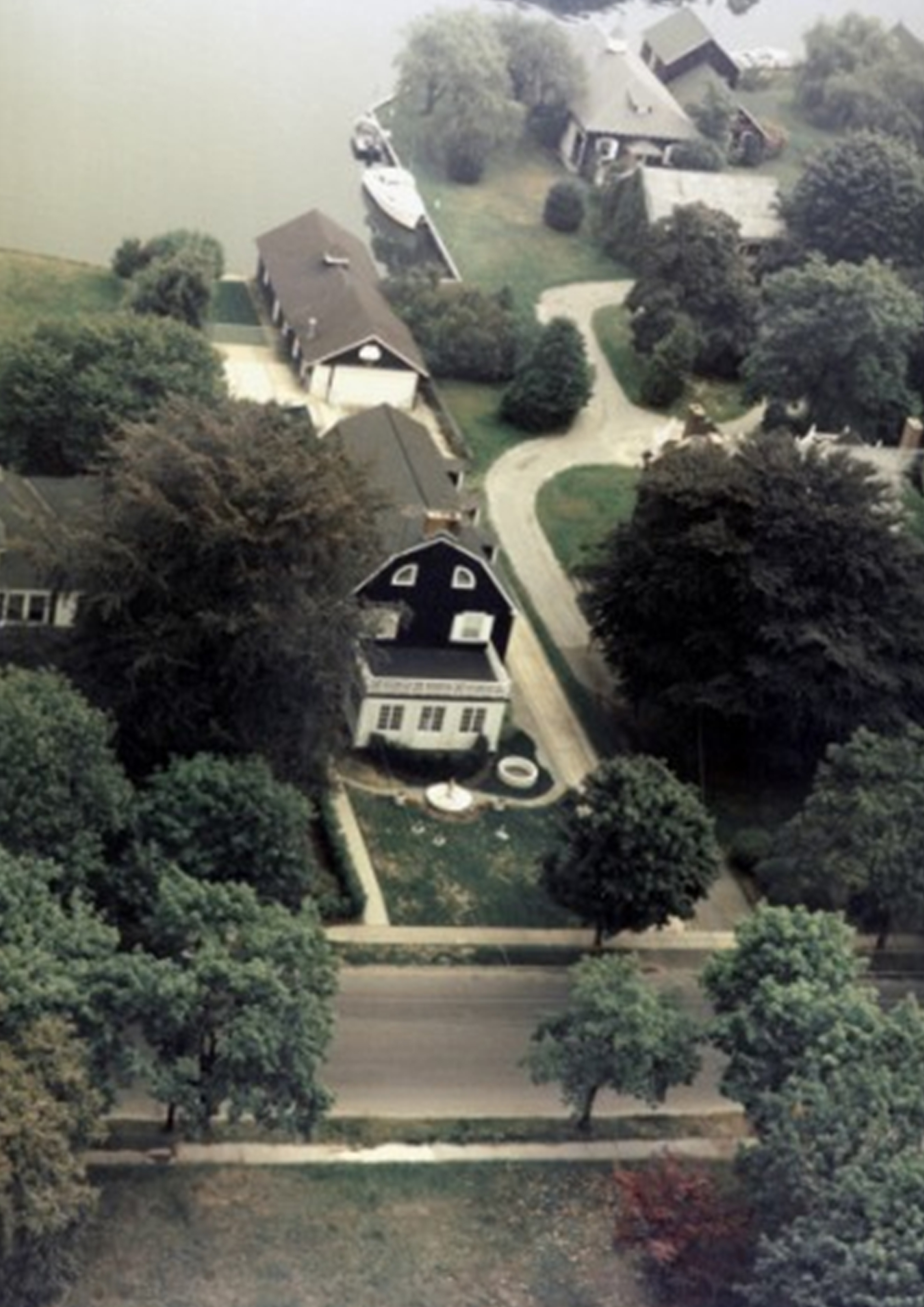 The air view of the property of 112 Ocean Avenue.